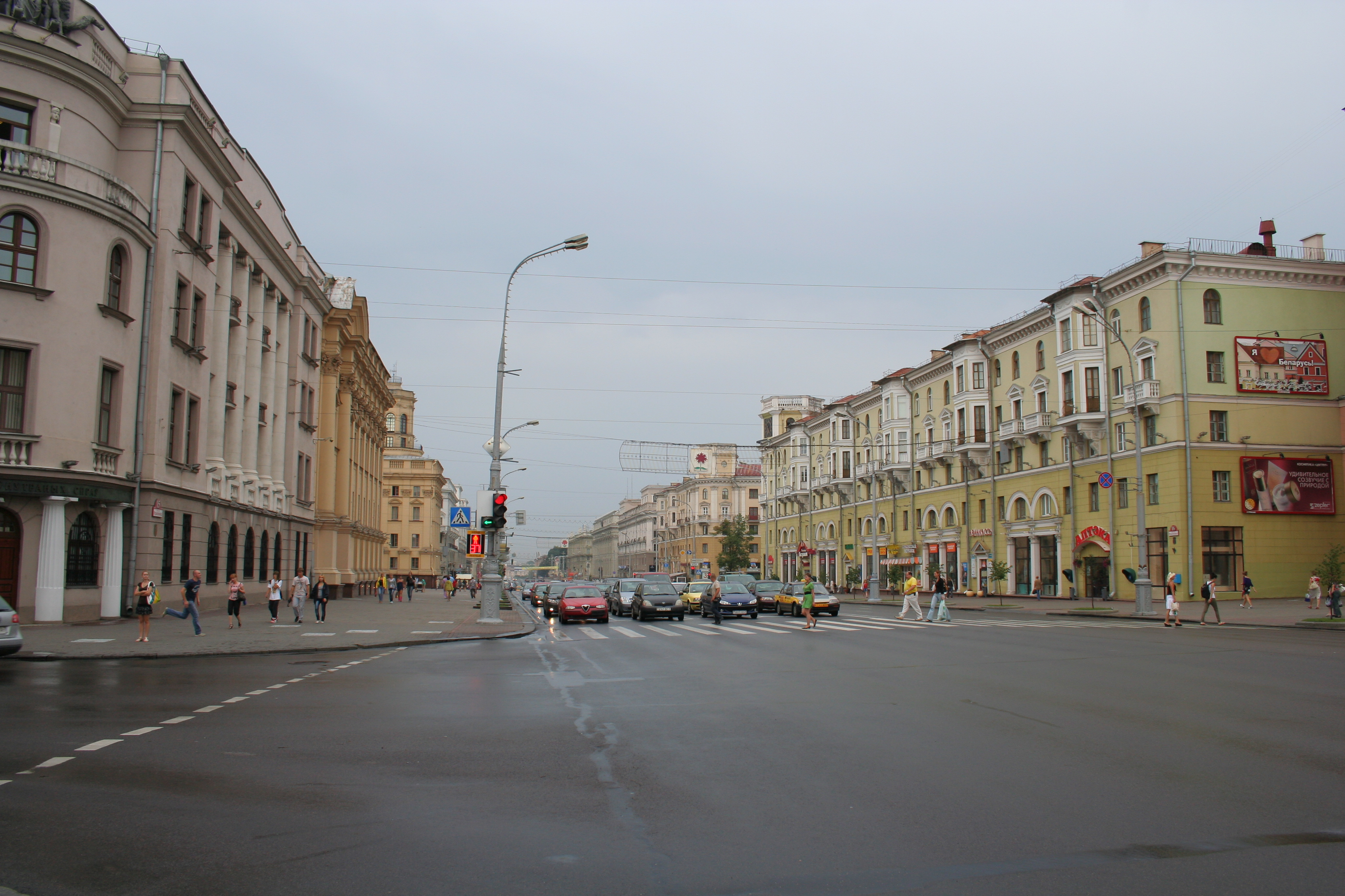 Views of Minsk (Belarus). Independence avenue.